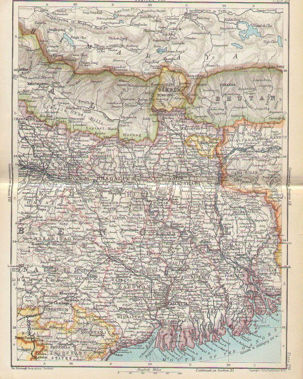 1893 map of Bengal Bengali: Hindi